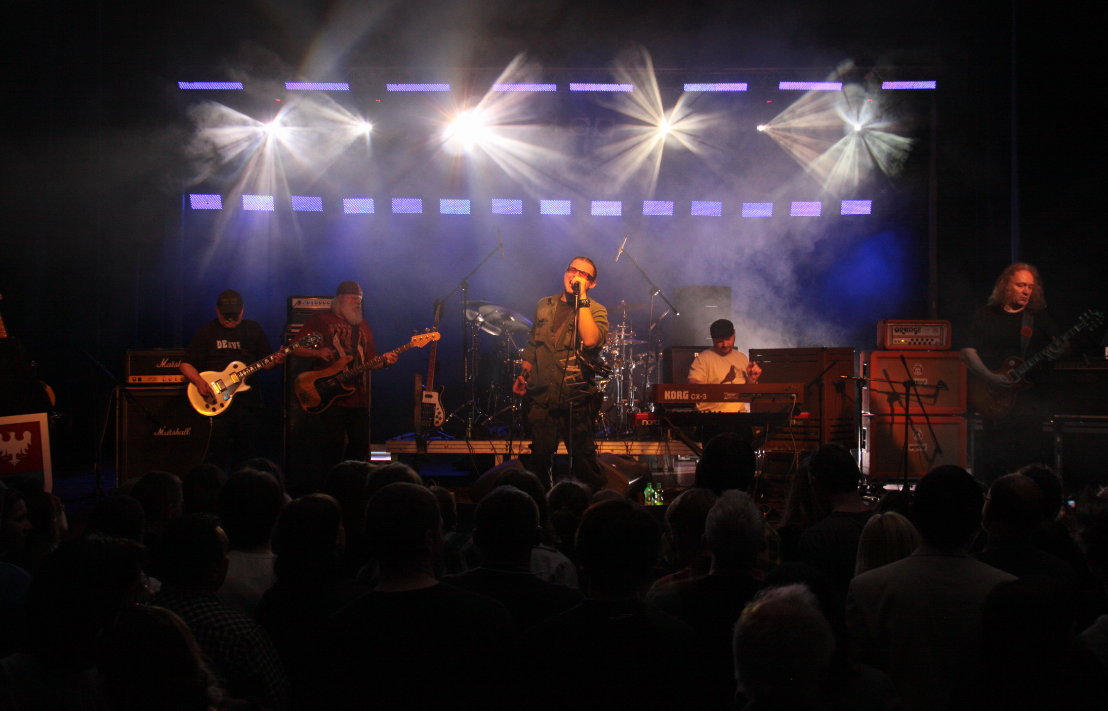 Dżem - Polish blues-rock band, concert in Busko-Zdrój, 25 april 2010 r.